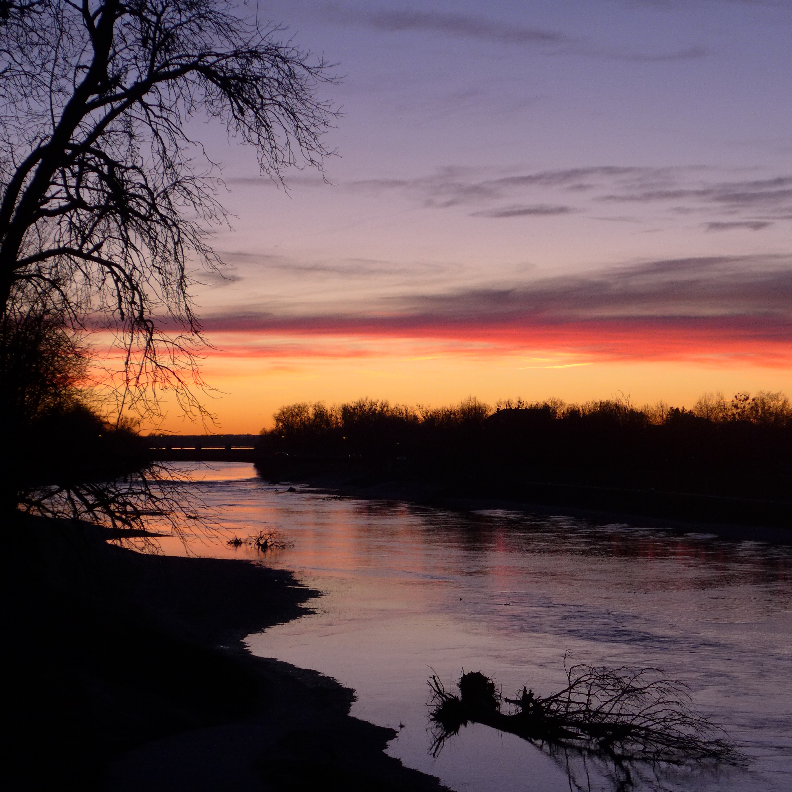 Renatured Isar Dingolfing between new and old Isar bridge.